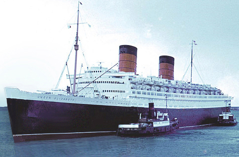 RMS Queen Elizabeth in Cherbourg (Normandy, France) in 1966.